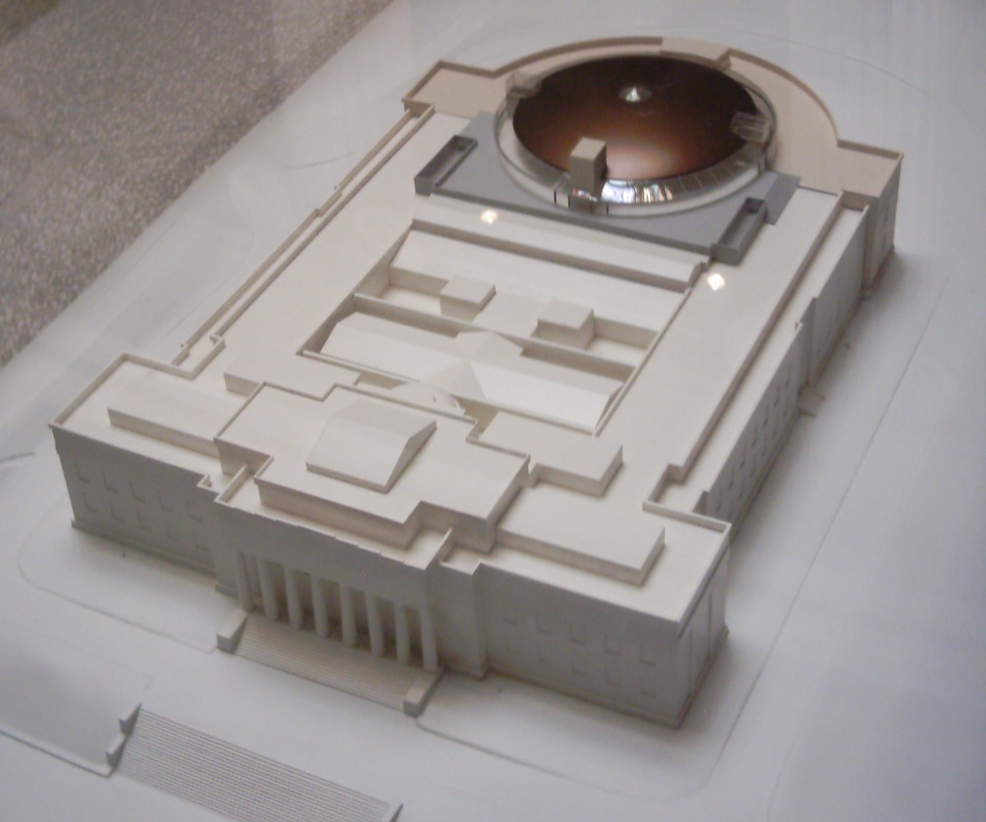 Model of the Auckland War Memorial Museum, found in the foyer of the museum, Auckland City, New Zealand. Note the new copper dome at the rear, filling the old semicircle courtyard (leaving a glass-covered semicircle around it to provide light to the lower stories surrounding the internal, spherical building under the dome).